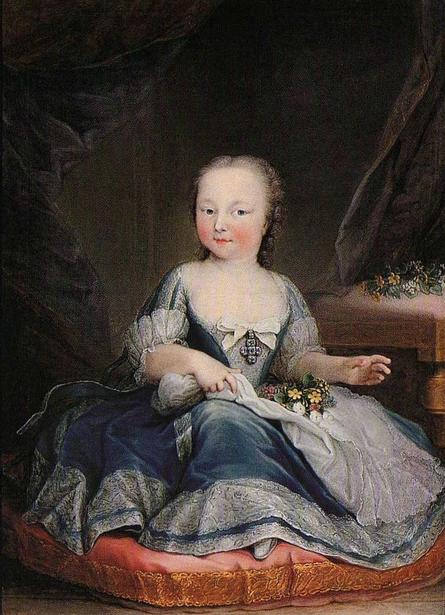 Portrait of Princess Maria Felicita of Savoy (1730–1801)